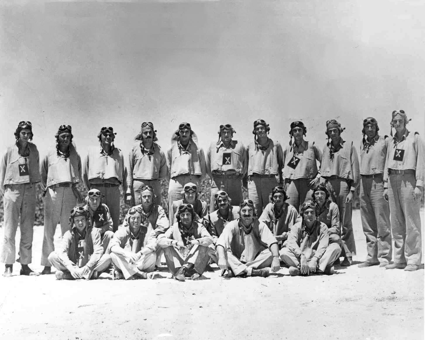 The pilots of the U.S. Marine Corps scout bomber squadron VMSB-241 on Midway between 17 April (when Henderson took command) and 28 May 1942 (when Frazer and Smith were detached). Those marked with an “x” were killed during the upcoming Battle of Midway, 4-6 June 1942 (left to right, all USMCR(V) unless otherwise noted): Front row, seated: 2nd Lt. Albert W. Tweedy; 1st Lt. Bruce Posser (wearing sandals); Maj. Lofton R. Henderson, USMC (CO); Capt. Leo R. Smith, USMC (XO); 1st Lt. Elmer G. Gidden, Jr. Middle row, kneeling: 2nd Lt. Thomas J. Gratzek; 2nd Lt. Robert W. Vaupell; 1st Lt. Daniel Iverson, Jr.; 2nd Lt. Jese D. Rollow, Jr.; 2nd Lt. Harold G. Schlendering; Tech. Sgt. (NAP) Clyde H. Stamps, USMC; Rear row, standing: 2nd Lt. Maurice A. Ward; 1st Lt. Richard L Blain; 2nd Lt. Sumner H. Whitten; 2nd Lt. Thomas F. Moore, Jr.; 1st Lt. Armond M. DeLalio; 2nd Lt. Bruce Ek; 1st lt Leon M. Williamson; 1st Lt. Richard E. Fleming; 2nd Lt. Robert J. Bear; MARGUN (NAP) Howard C. Fraser, USMC; 2nd Lt. Bruno P. Hagedorn.